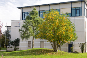 comes from flickr glion